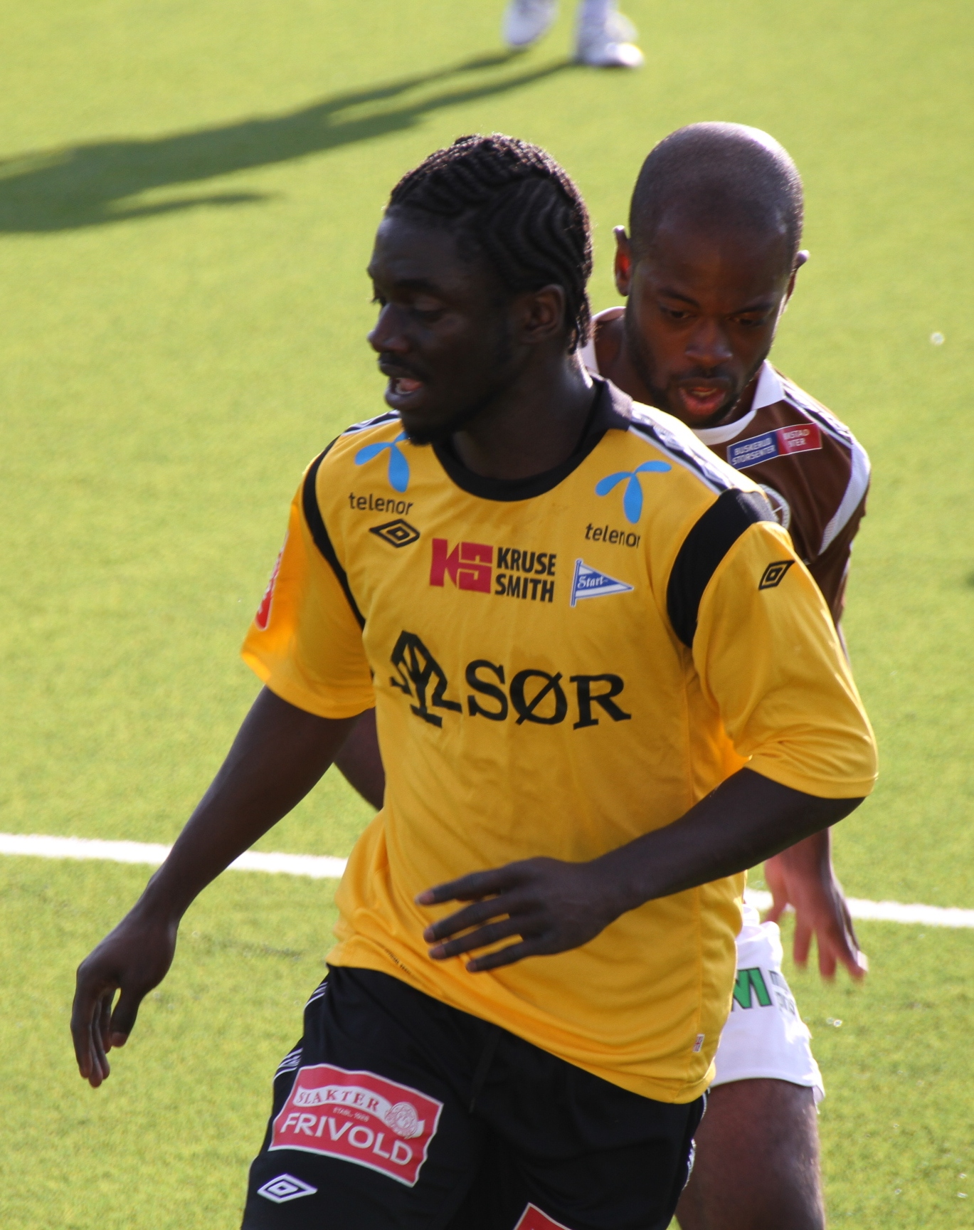 IK Start (Norway) player in match against Mjöndalen. May 20, 2012.